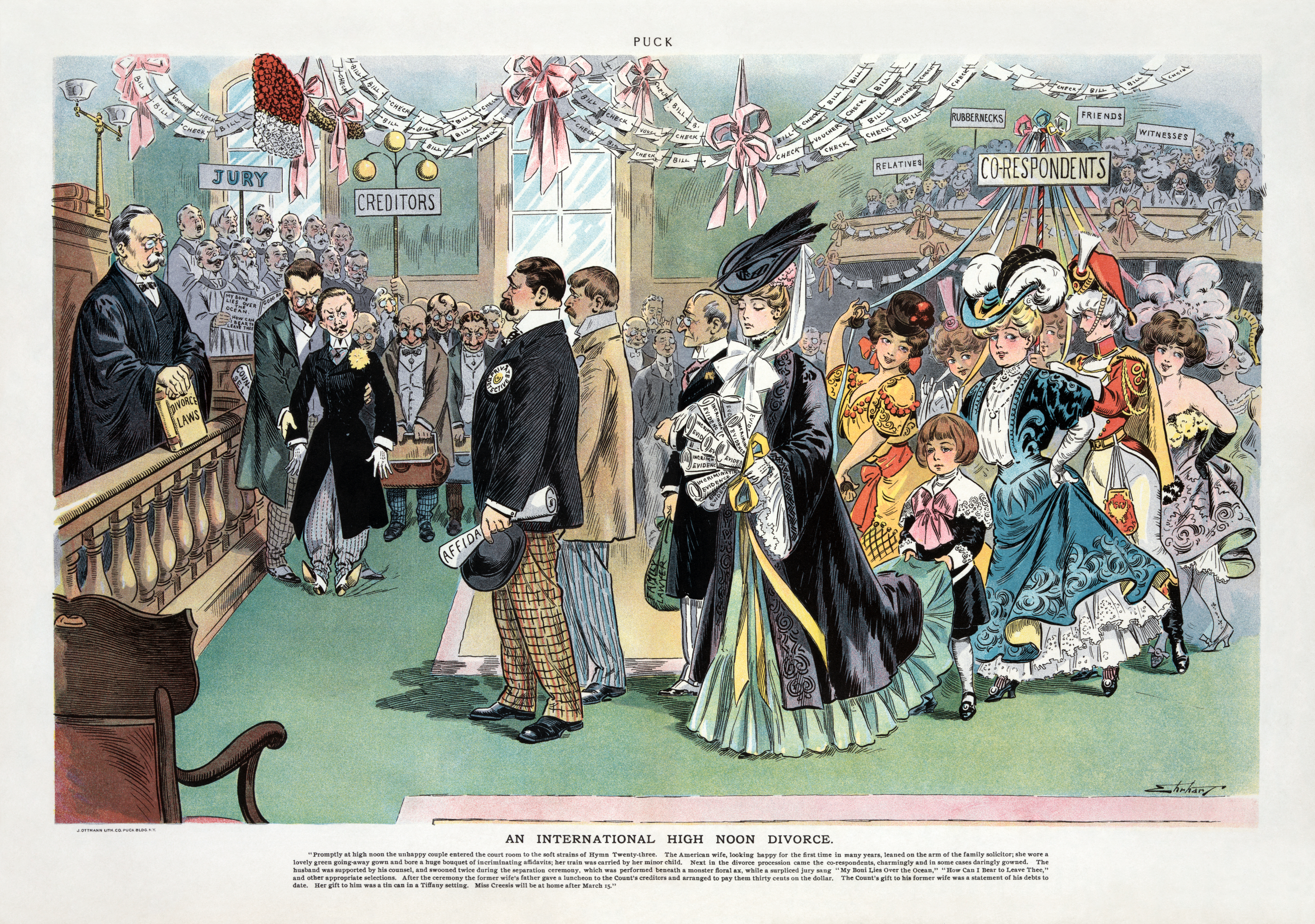 Illustration parodies the circus-like atmosphere of the divorce proceedings of Anna Gould (seen holding a bouquet made out of of indictment against her husband) against Boni de Castellane. See full text under "Inscriptions".